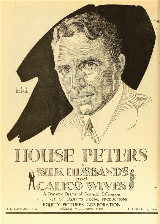 Advertisement with House Peters in the American drama film Silk Husbands and Calico Wives (1920).